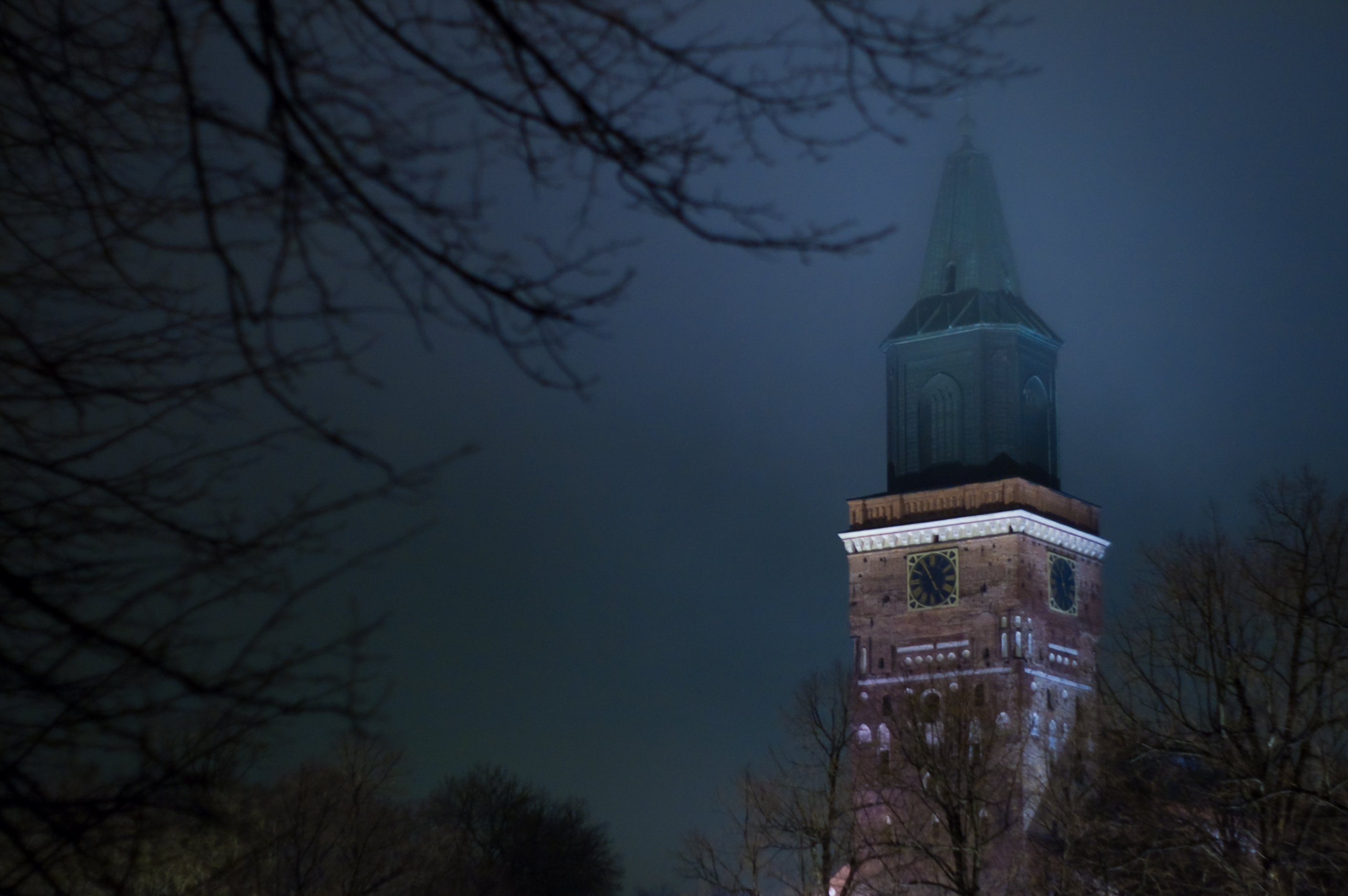 The Turku Cathedral tower by night.